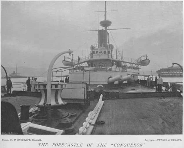 Photograph showing forecastle and BL 12 inch Mk II guns of British battleship HMS Conqueror.